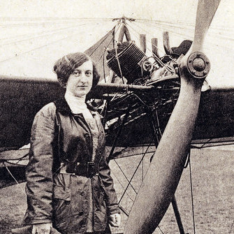 Charlotte Möhring and plane. Guess 1913